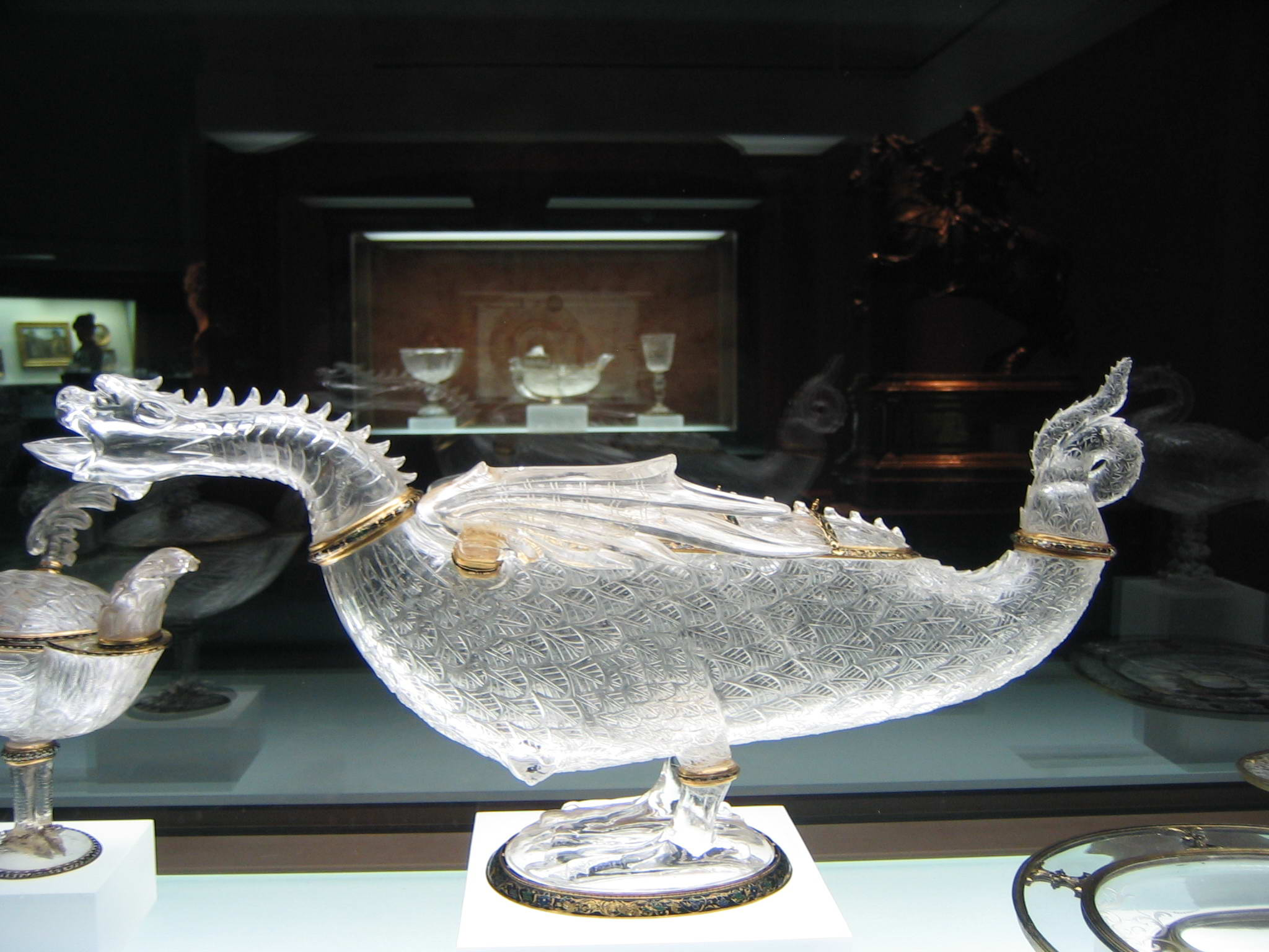 Container representing a winged dragon. Made of rock crystal and enameled gold in the last third of the 16th century in Milan. The upper part is from circa 1626. It's part of the Dauphin’s Treasure.